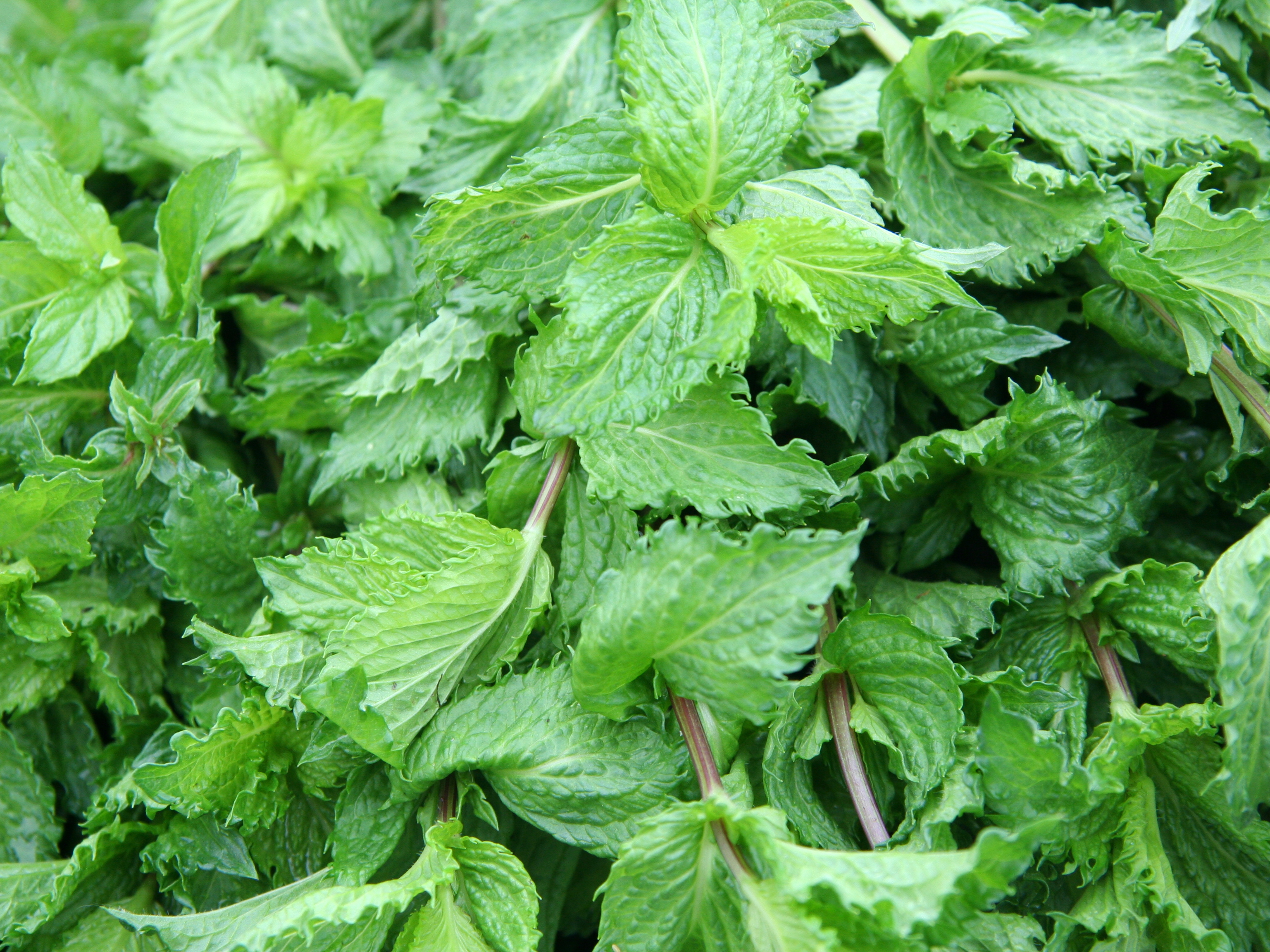 Spearmint (Mentha spicata) offered for sale at an outdoor farmers' market in Rochester, Minnesota